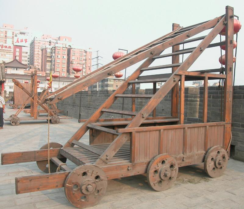 one of Siege equipments in ancient China